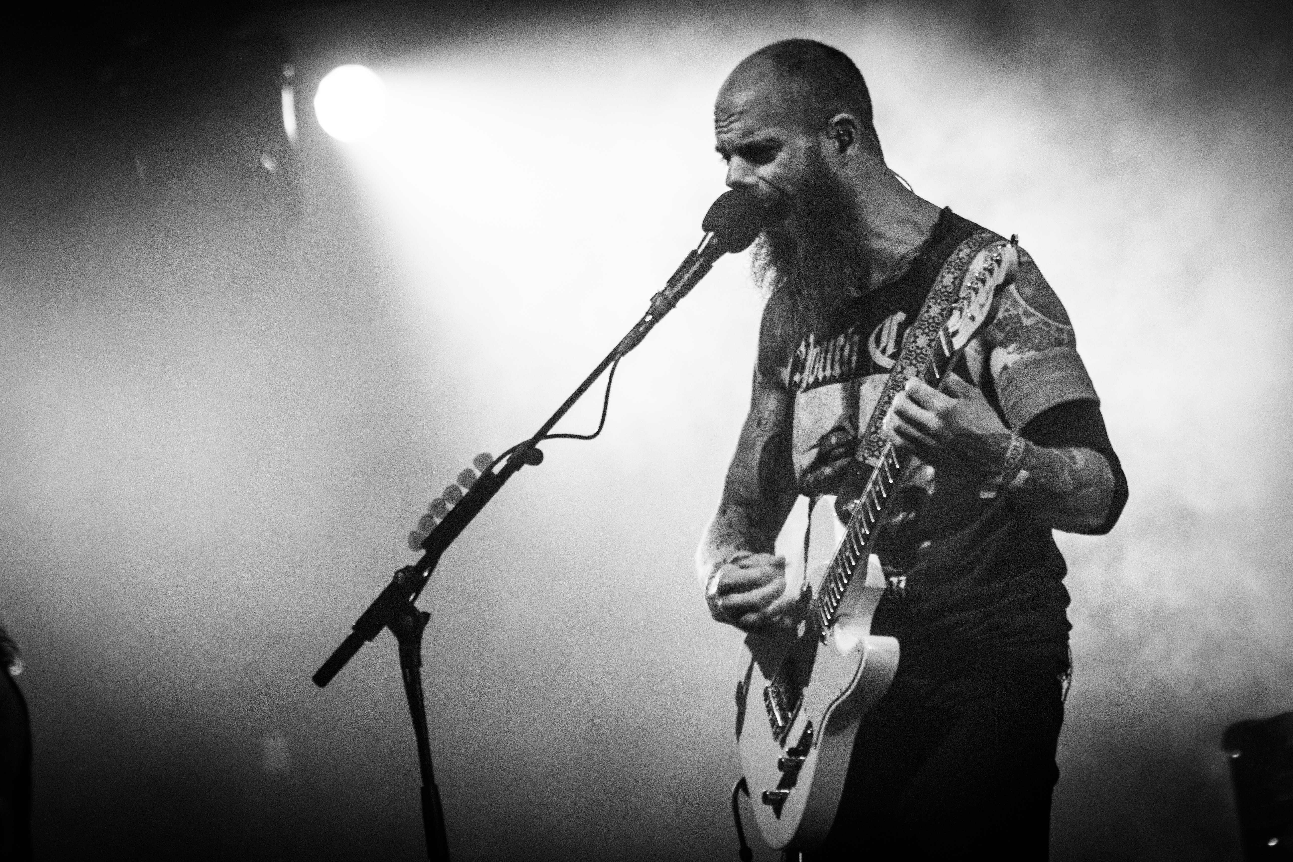 Baroness live at Roadburn Festival, Tilburg, April 2017